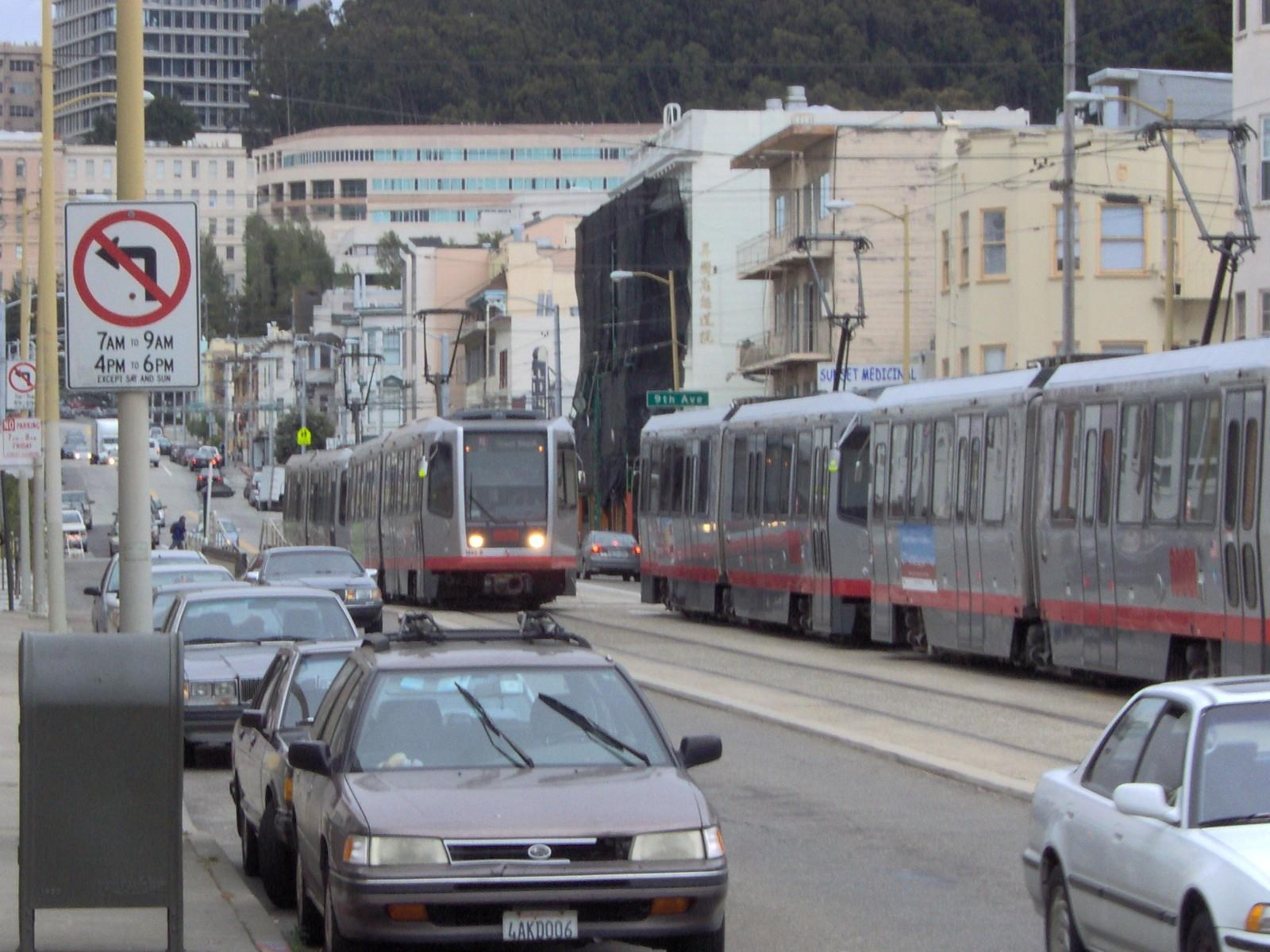 Two N Judah trains on Judah near 9th Avenue in November 2005